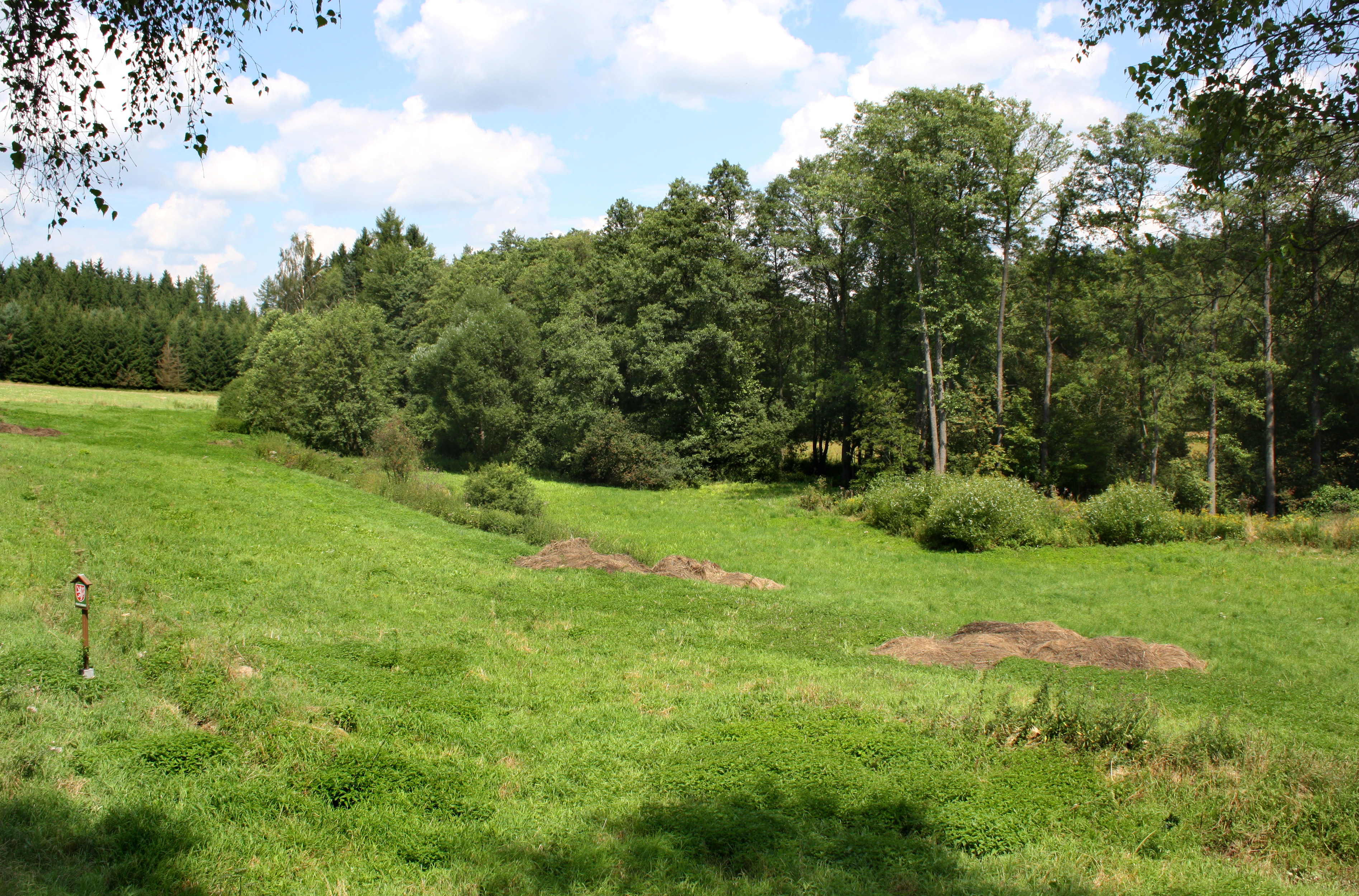 Kladinský Potok natural reserve, Czech Republic